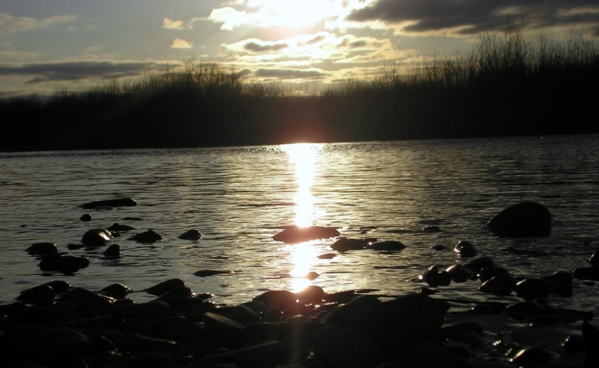 Stryi River at night near the village Hnizdychiv. Zhydachiv Raion